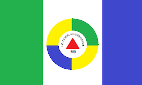 Flags of the city of Divisópolis, Minas Gerais, Brazil.